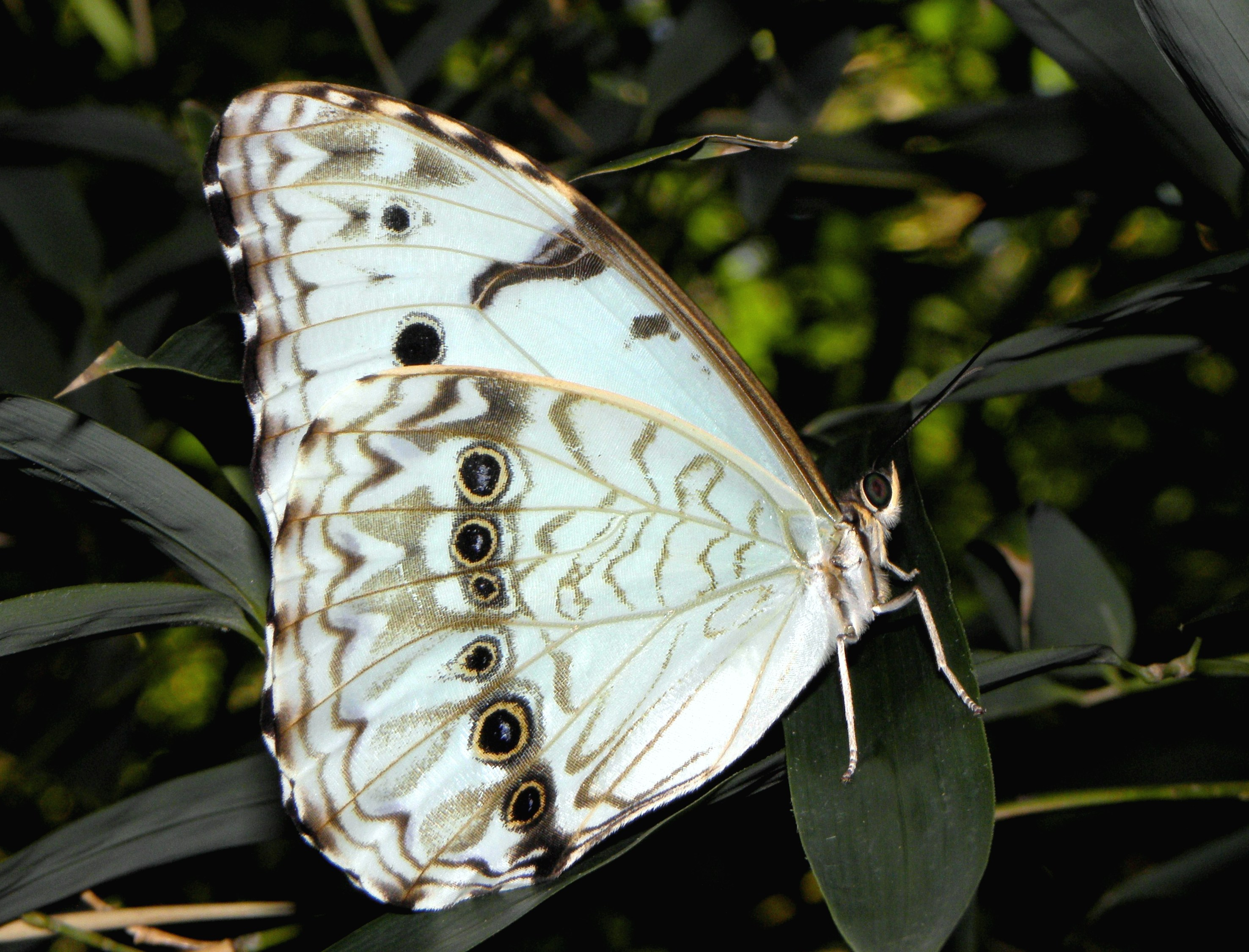 Argentine flag butterfly (Morpho epistrophus argentinus) in the Martin Garcia island, Argentina .